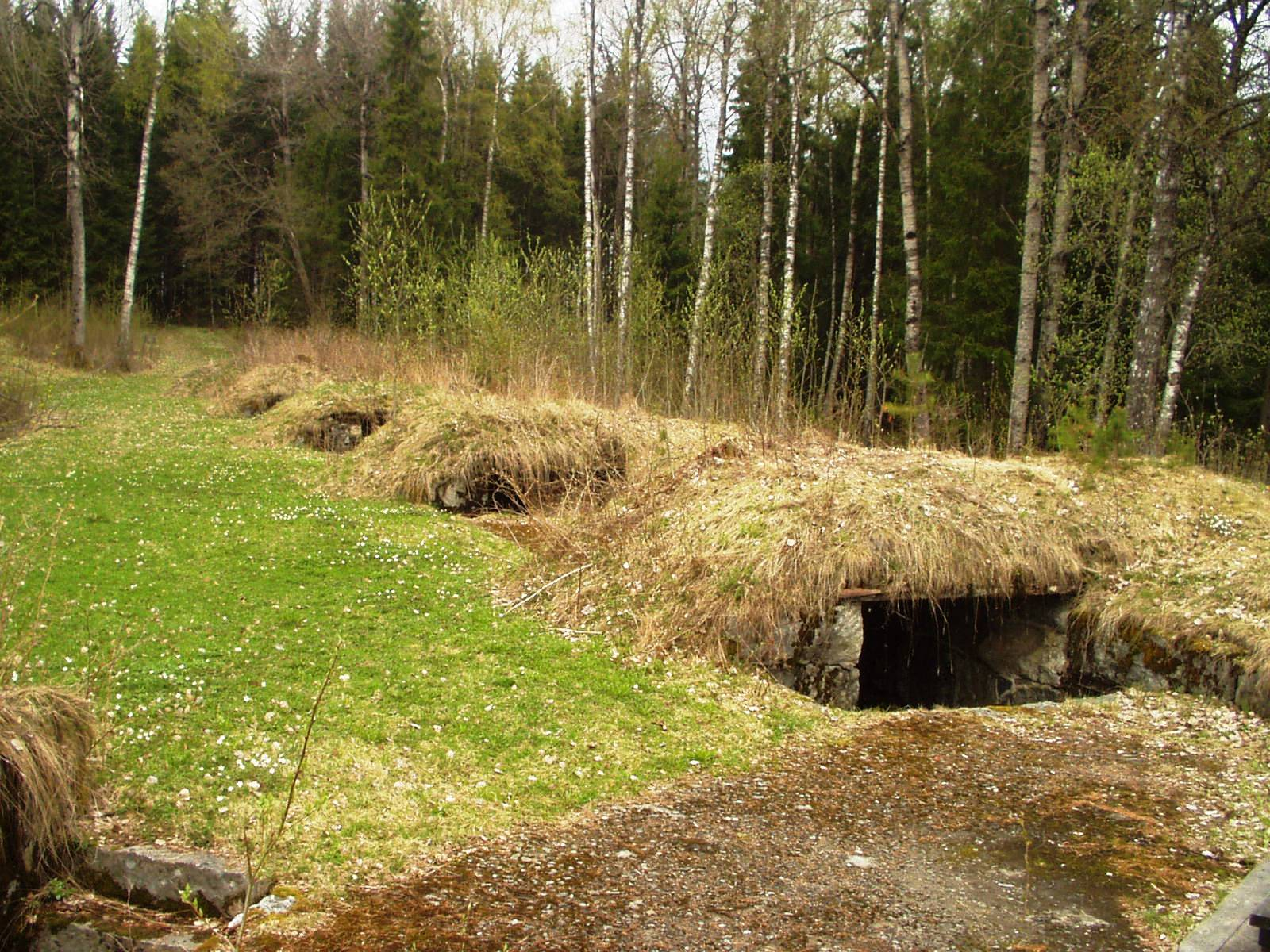 Gun positions in Langnes battery